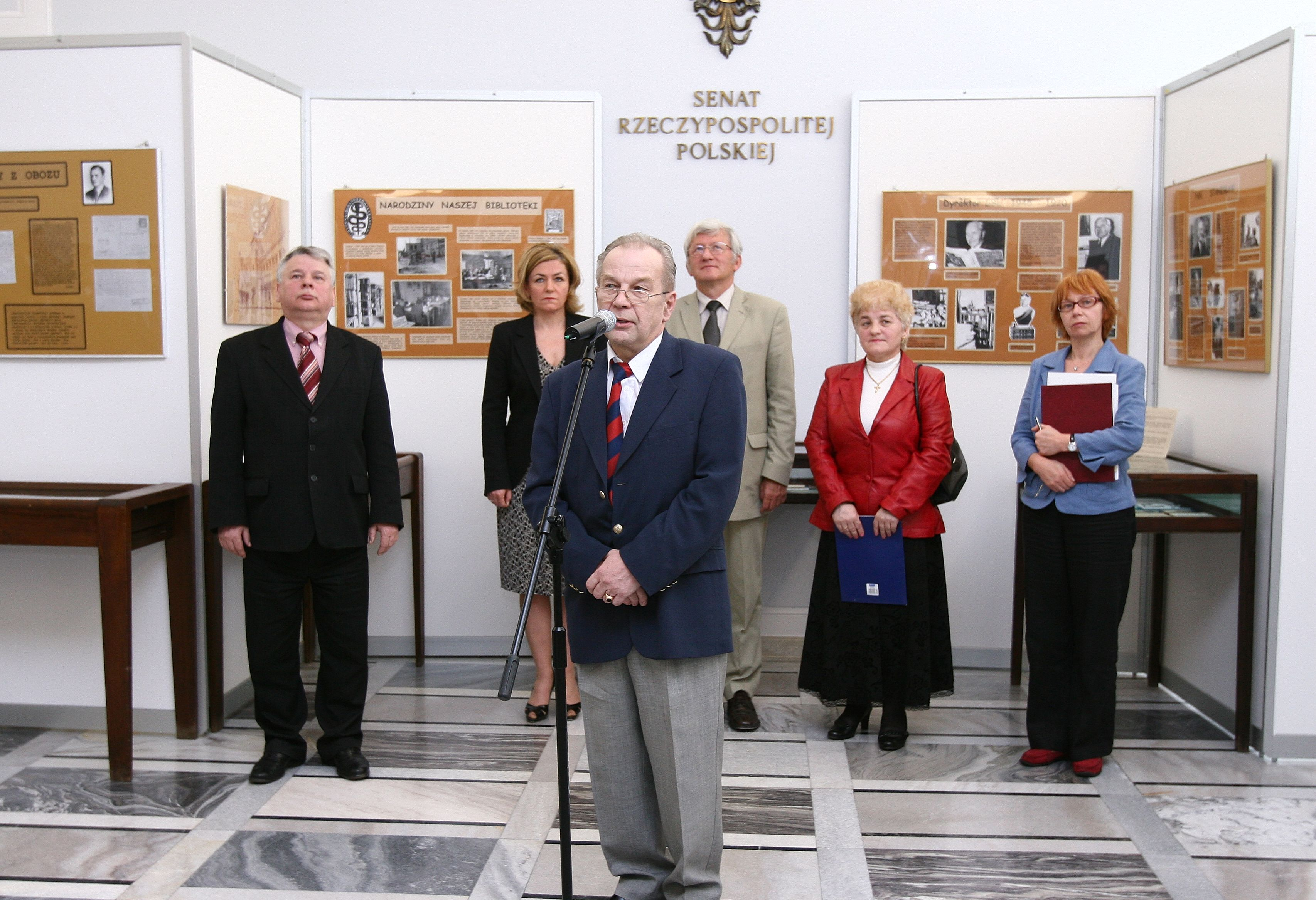 Opening of the exhibition "Stanisław Konopka (1896-1982). A lifetime's work" in the Polish Senate